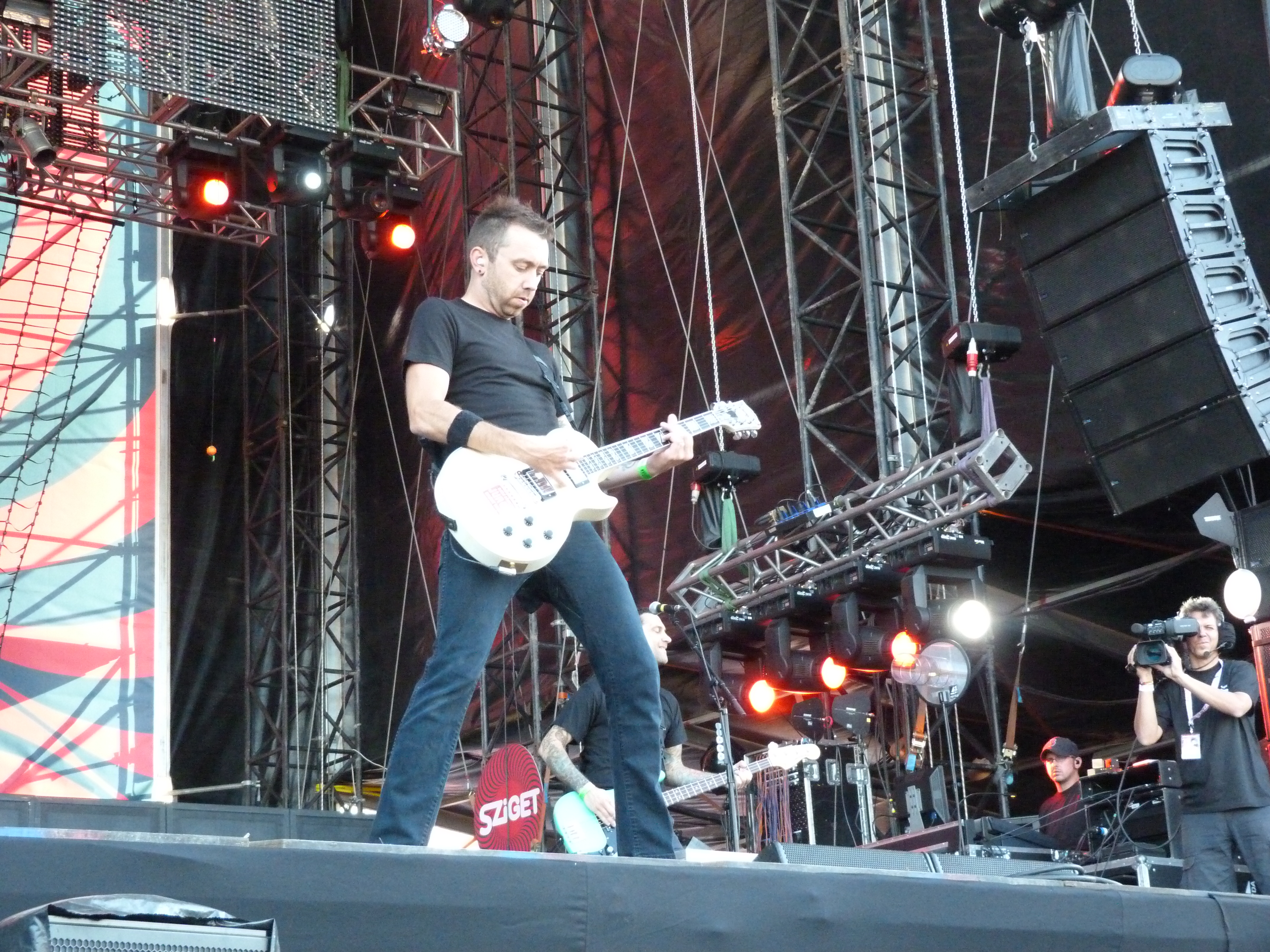 Tim McIlrath.Rise Against was playing at Sziget Festival in Budapest, on the 10th of August, 2011. American hardcore punk band from Chicago, Illinois. Formed in 1999, the band currently consists of Tim McIlrath (lead vocals, rhythm guitar), Zach Blair (lead guitar, backing vocals), Joe Principe (bass guitar, backing vocals) and Brandon Barnes (drums, percussion). Published under Creative Commons in the Metapolisz DVD line.